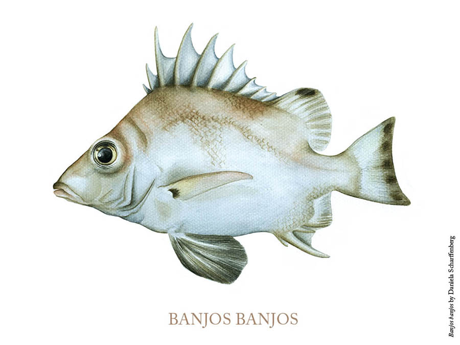 watercolor of the Banjofish (Banjos banjos)